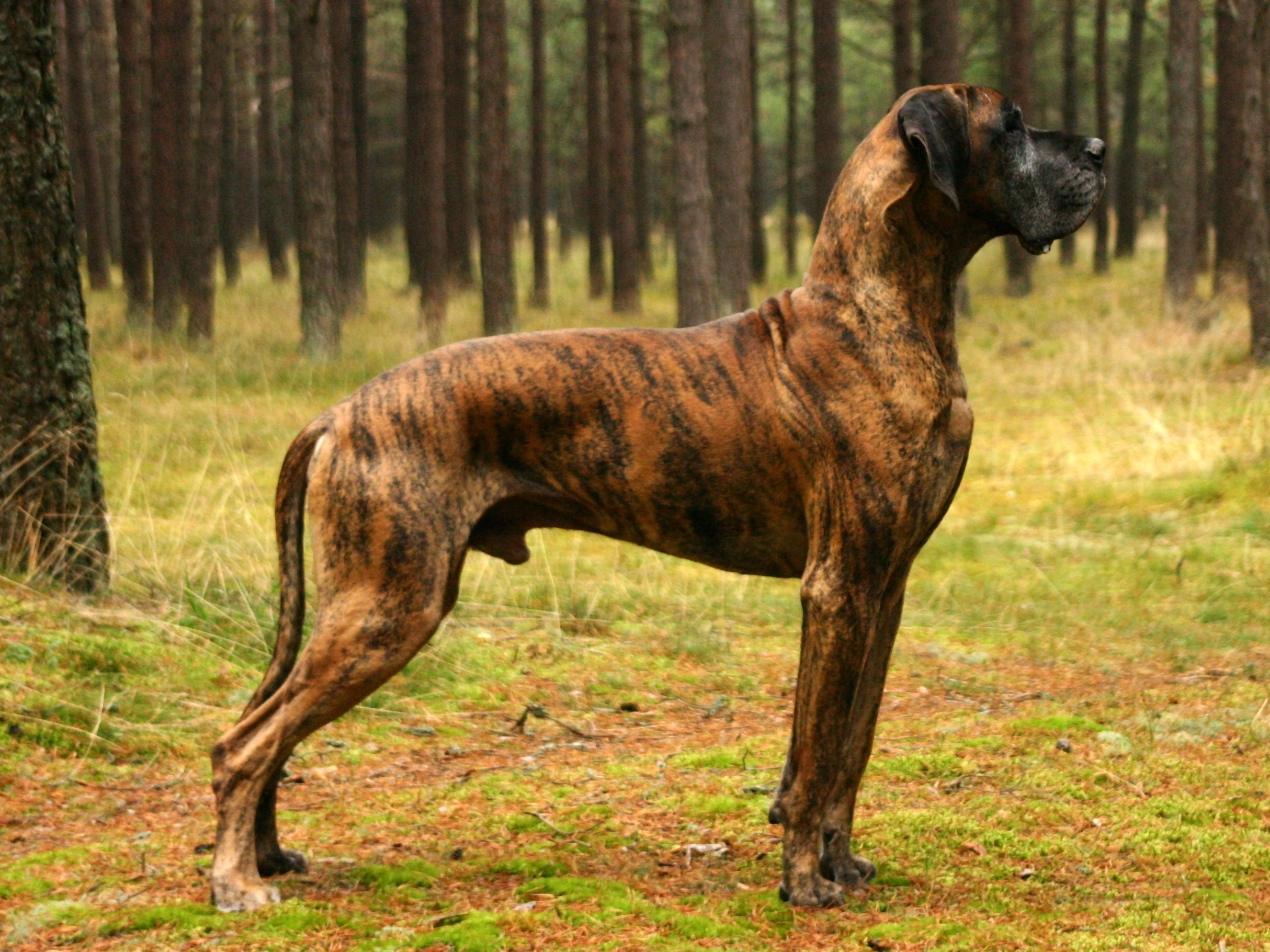 Medium weight brindle Great Dane